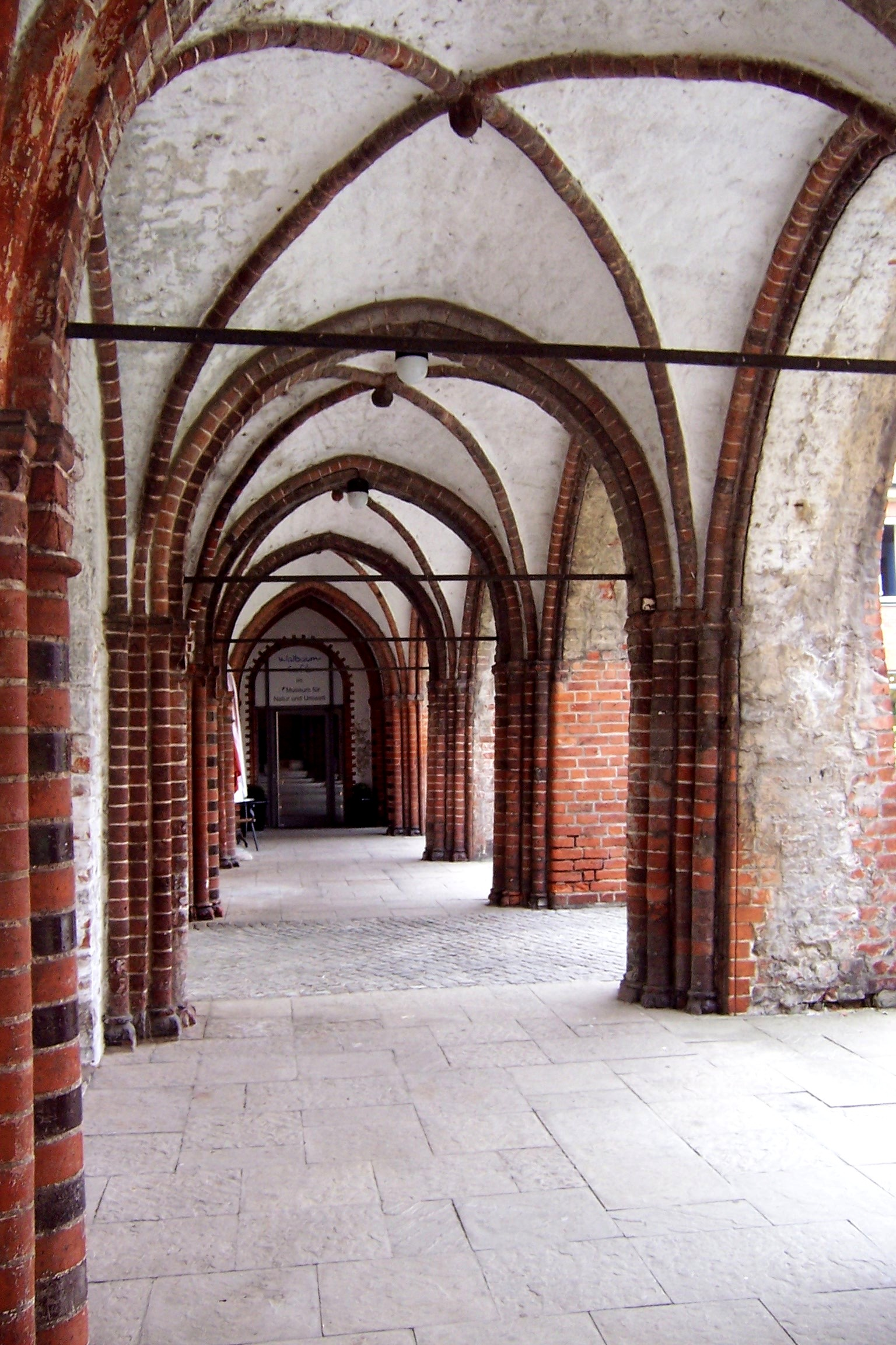 cloister of Lübeck cathedral